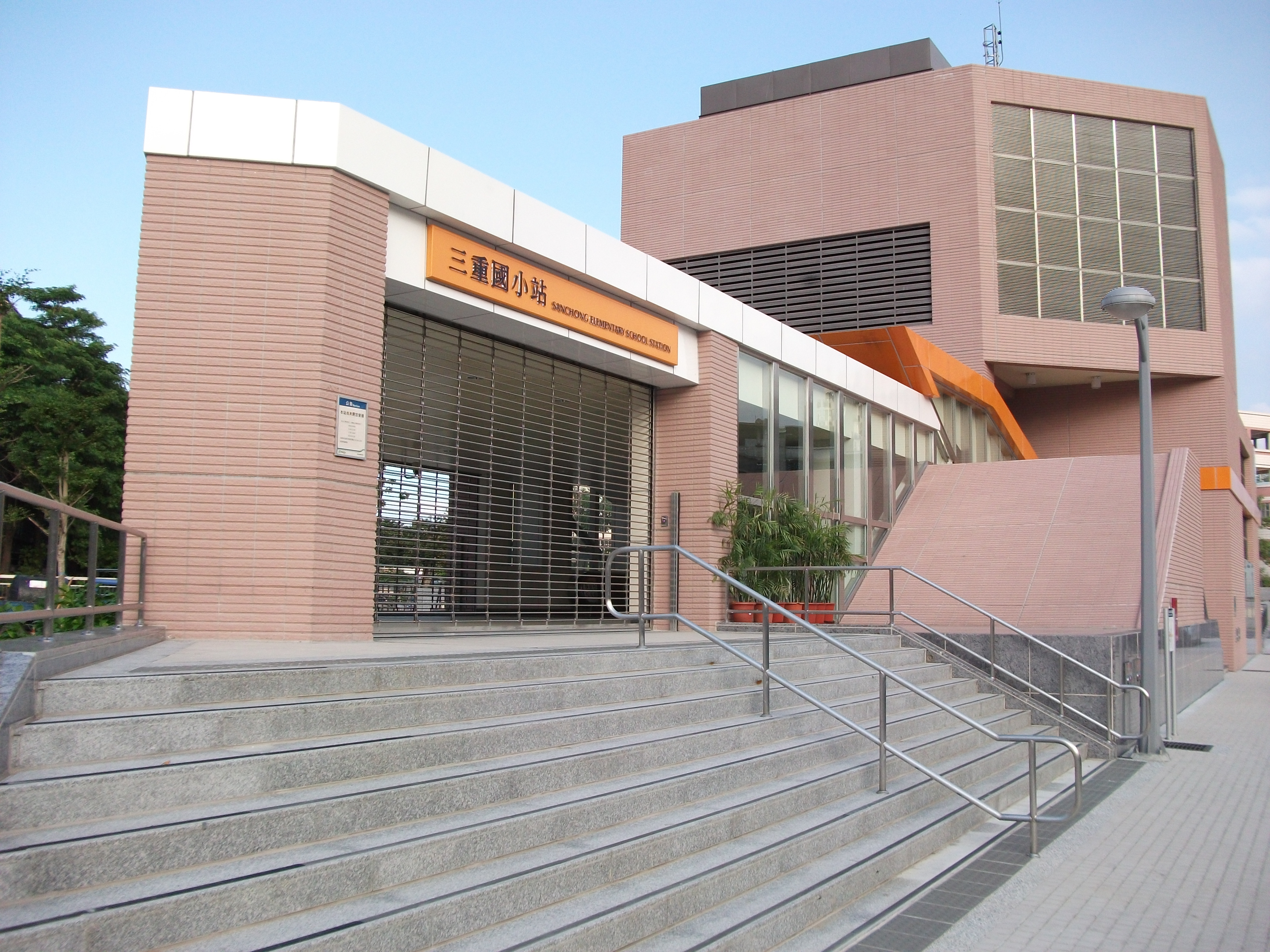 Taipei Metro Orange Line Sanchong Elementary School Station entrance